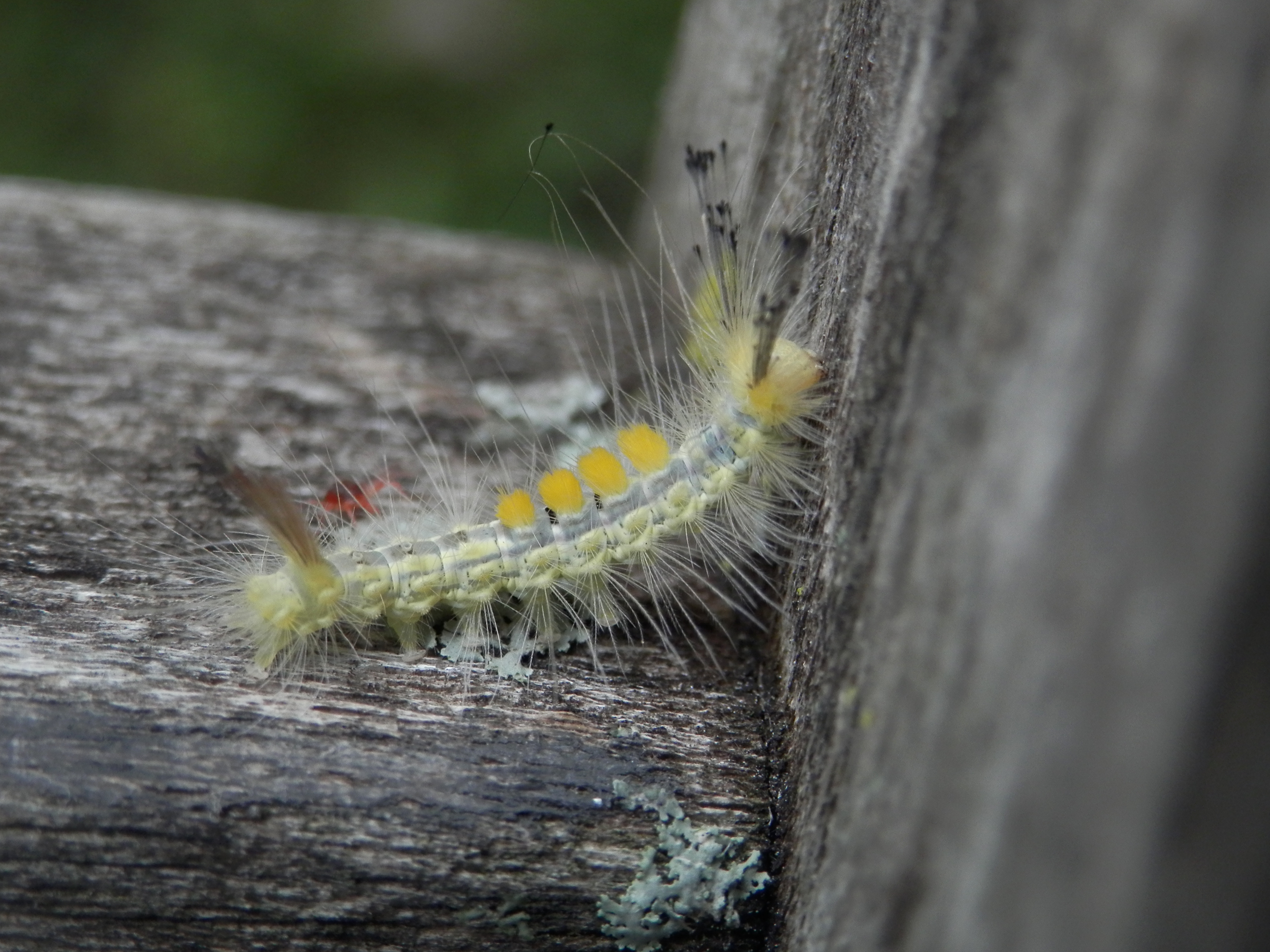 Definite Tussock Moth (Orgyia definita) Larva in Guelph, Ontario, Canada.